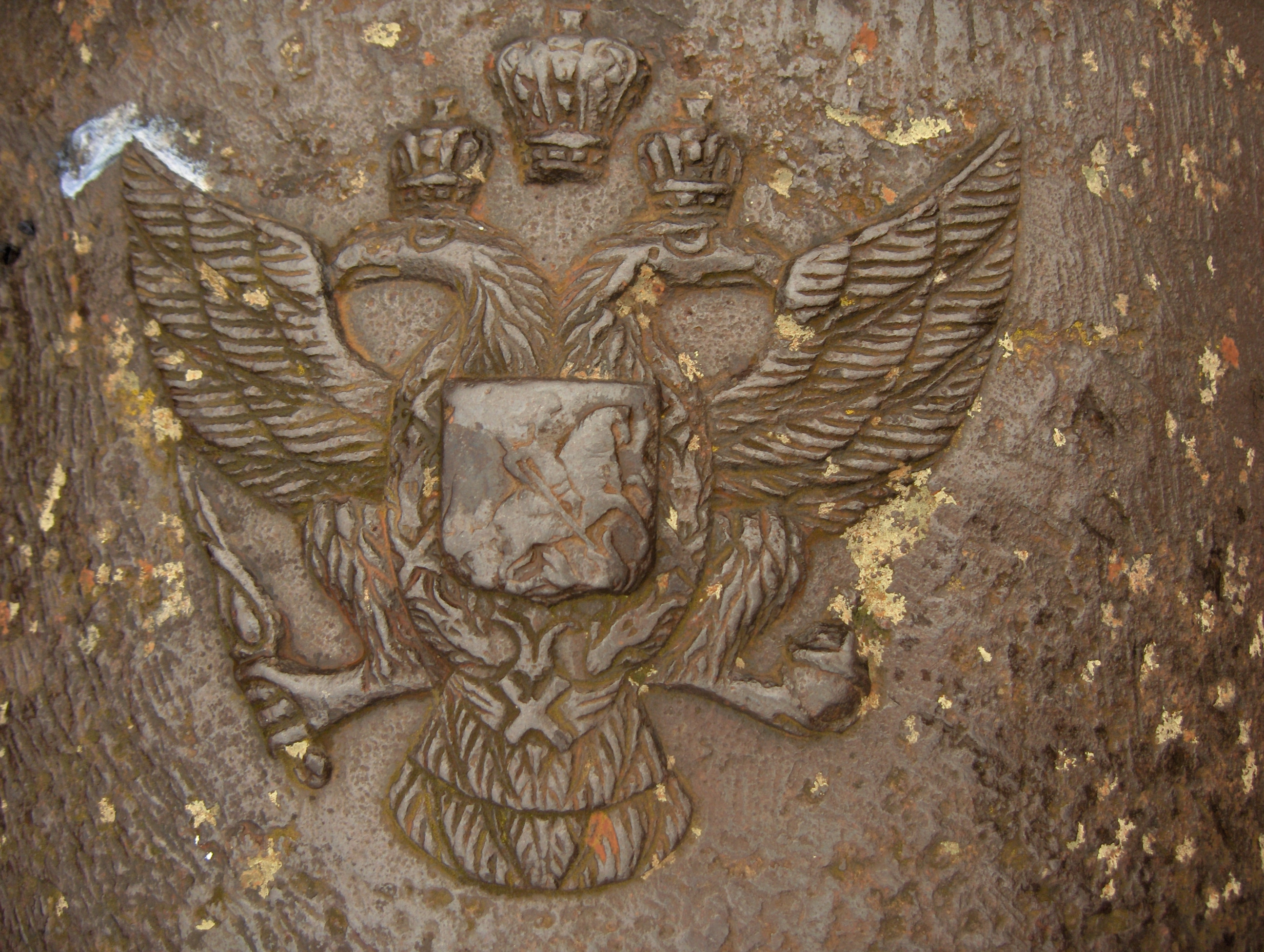 Bomarsund fortress in Åland. Detail of canon depicted on Image:BomarsundFortress09.JPG.